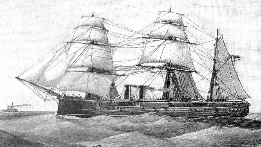 Depiction of British ironclad HMS Alexandra under sail.